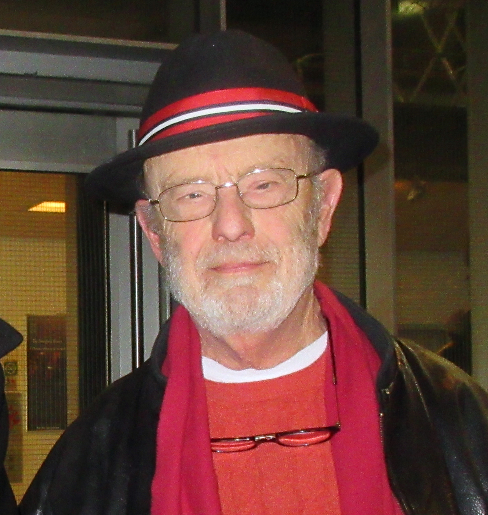 Uncle Frank in Home Alone, also known for The Secret of My Success and Runaway Jury. NYC March '19.